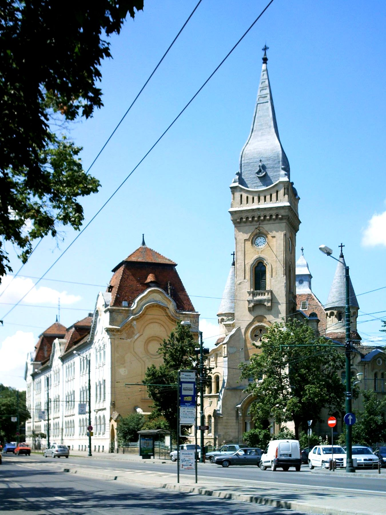 "Piarist High School" in Timisoara, România